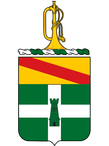 3rd Armored Regiment Coat Of Arms